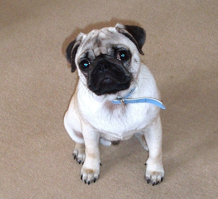 6-month-old fawn pug with blue collar. East Sussex 2009